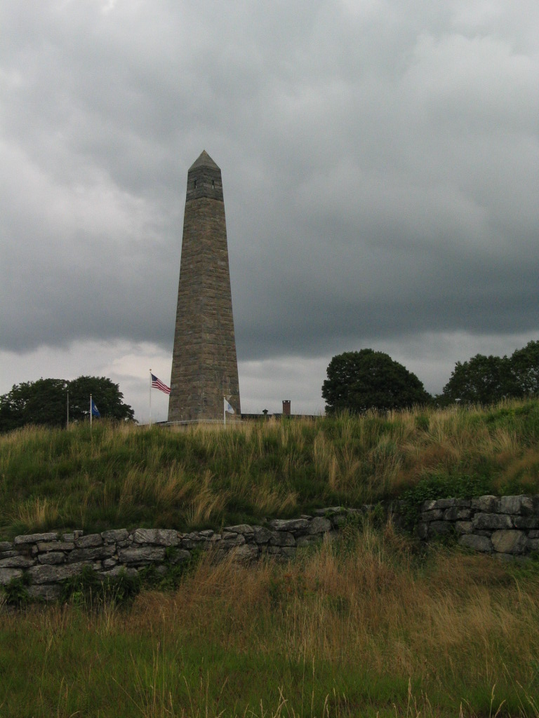 The remains of the fortress, the obelisque form the National Historic Site to commemorate the American Victory during the [Revolutionary War].